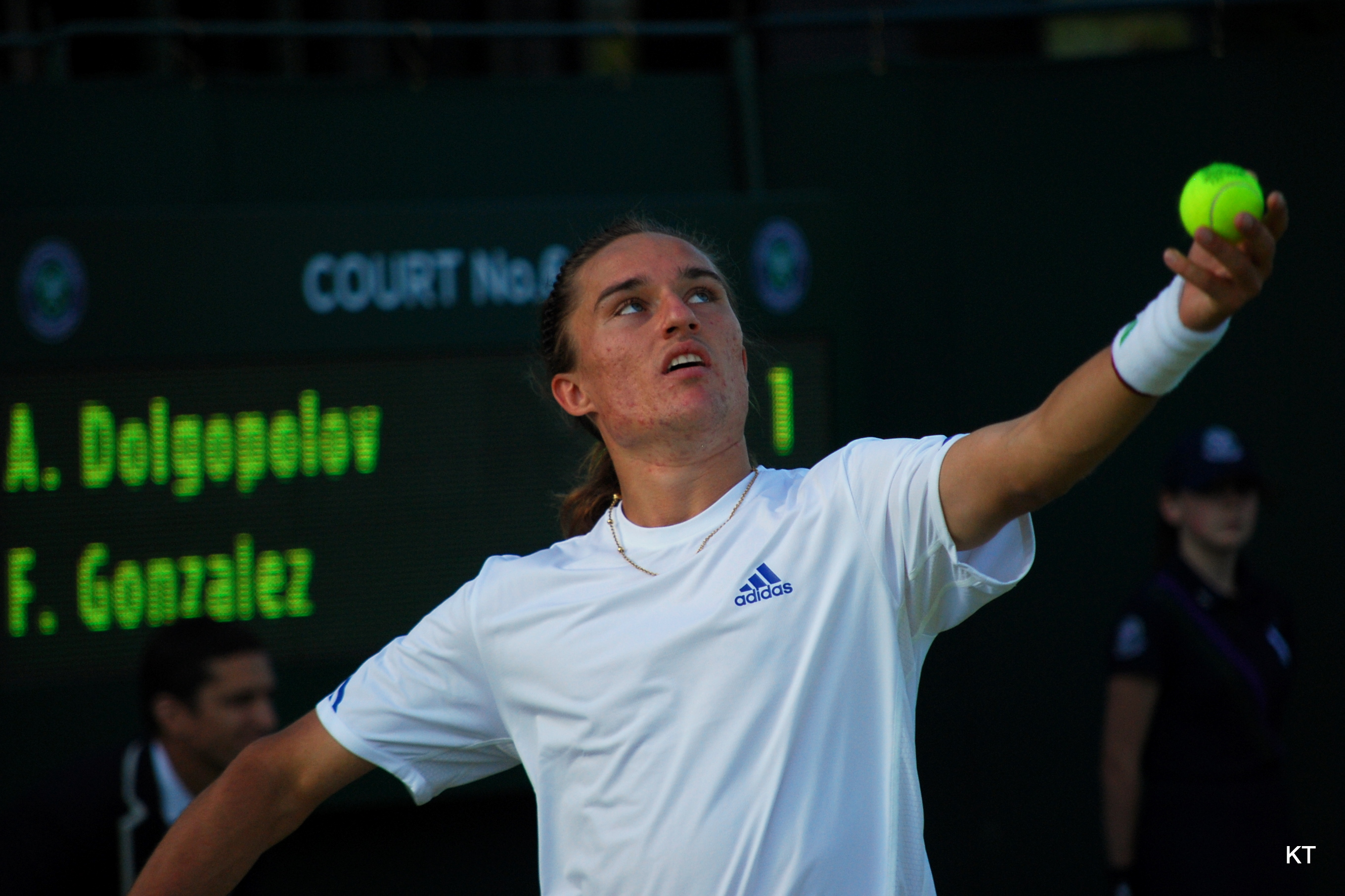 Alexandr Dolgopolov serves during his first round match with Fernando Gonzalez . Gonzalez won 6-3, 6-7, 7-6, 6-4. Day 2 of Wimbledon 2011.